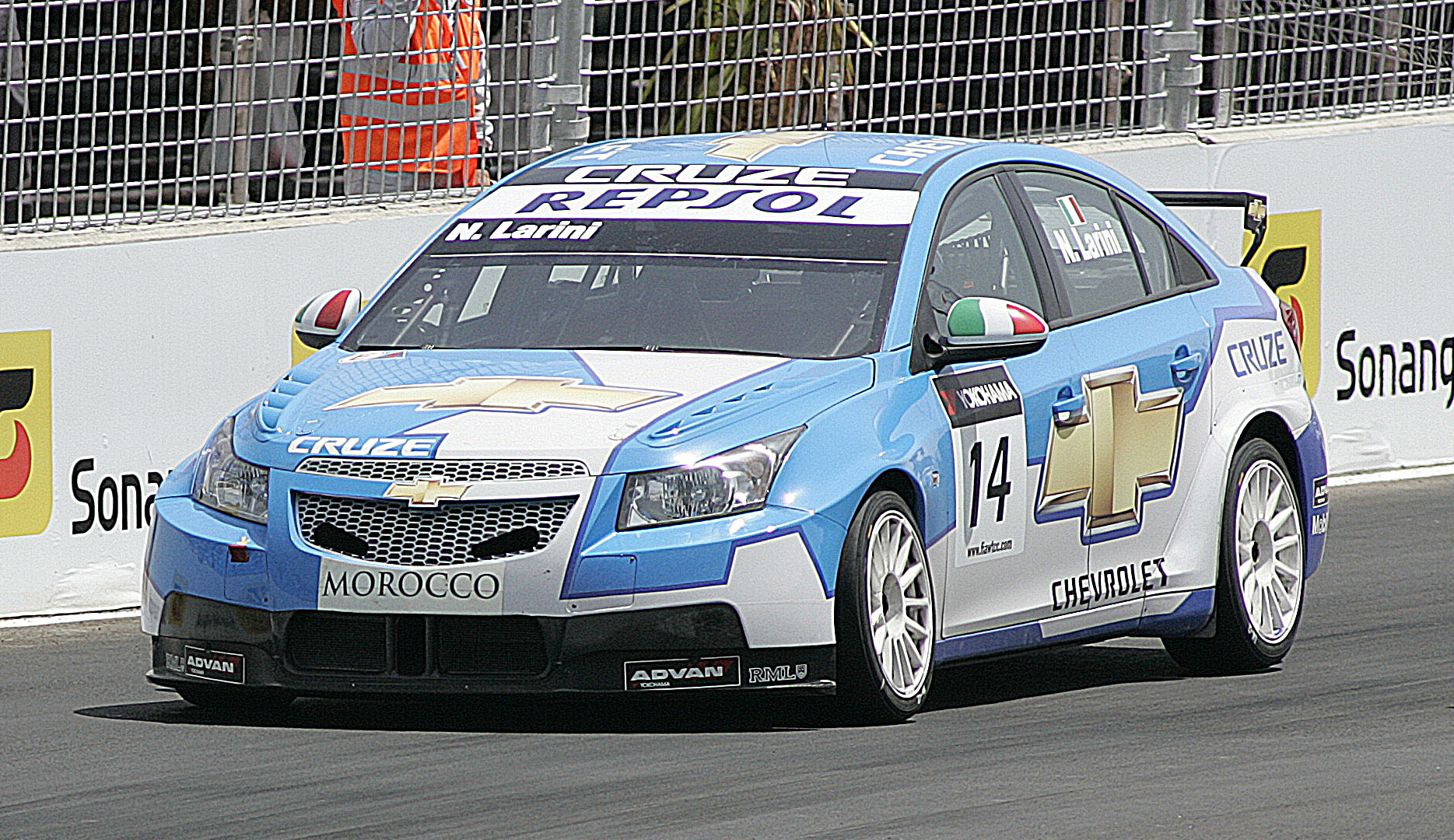 Nicola Larini driving Chevrolet Cruze at Marrakech (2009 WTCC season).